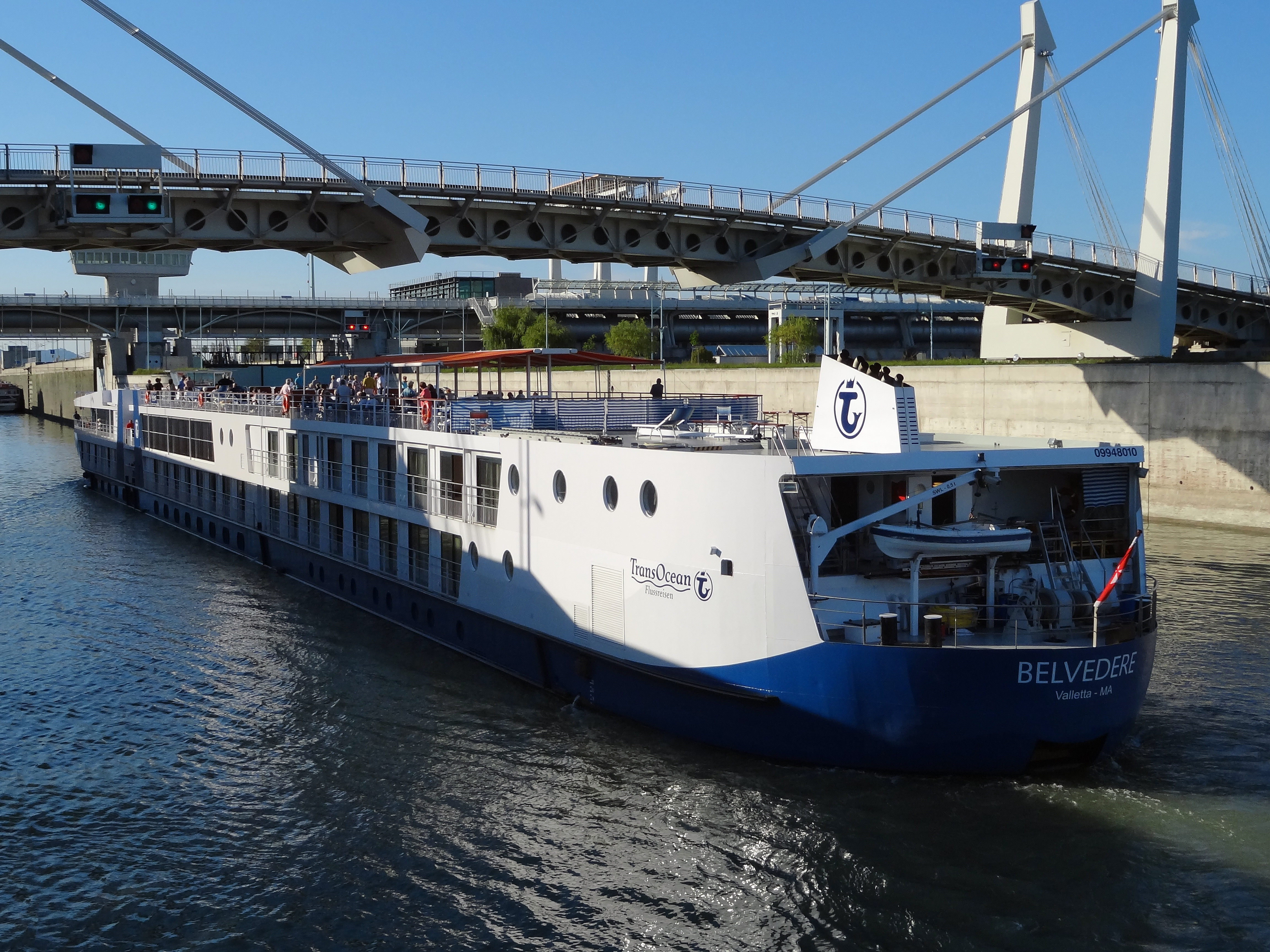 River cruise ship Belvedere in Freudenau, Danube.